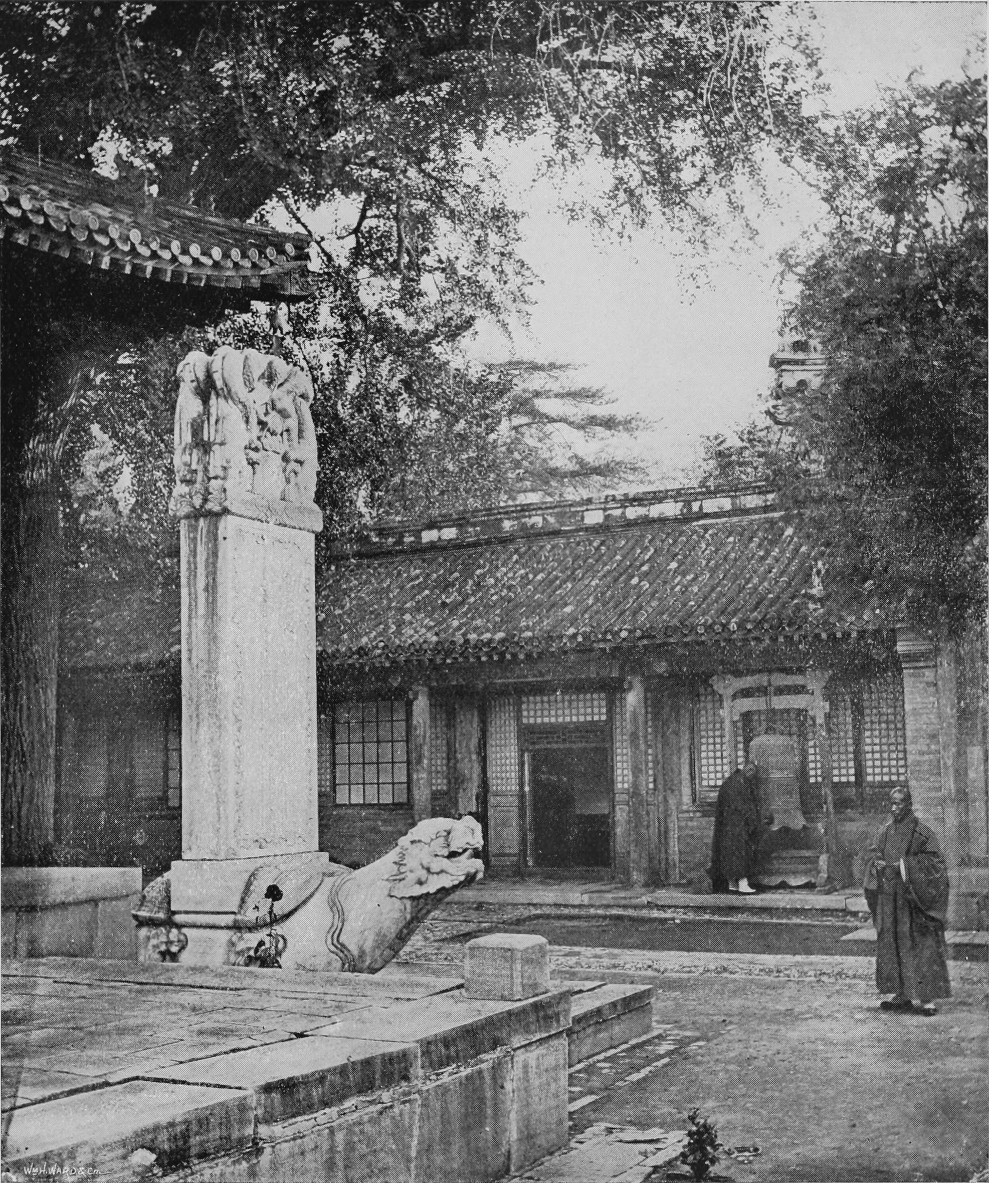 photo from Through China with a camera: "At the monastery of Wo-foh-sze, or "the Sleeping Buddha," we found a resting-place for the night. The old Lama here was complaining of bad times. There was not enough land, he said, to support the establishment, and that though every monk enjoyed a yearly grant of twelve taels (equal to about £3 10s, of our money) from the Peking Board of Rites. But of late years there have been but few of the members of the Imperial family to bury — a ceremony for which this establishment receives a fee of some 300 taels. A remarkably beautiful place was Wo-foh-sze; and the quarters of the monks there, though furnished with the usual simplicity, were wonderfully clean and well kept."